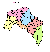 The rural shires (Ommelanden) in what is now known as the province of Groningen, shown in the old municipalities (around 1850).